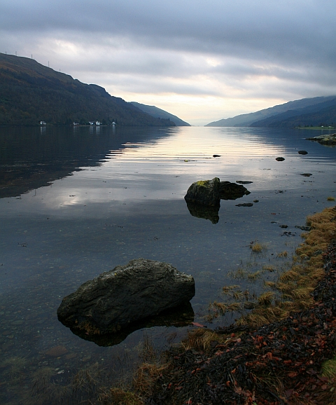 Loch Long, near to Ardmay, Argyll and Bute, Great Britain. Looking down the Loch from the torpedo testing facility. The houses to the left are at Ardmay.